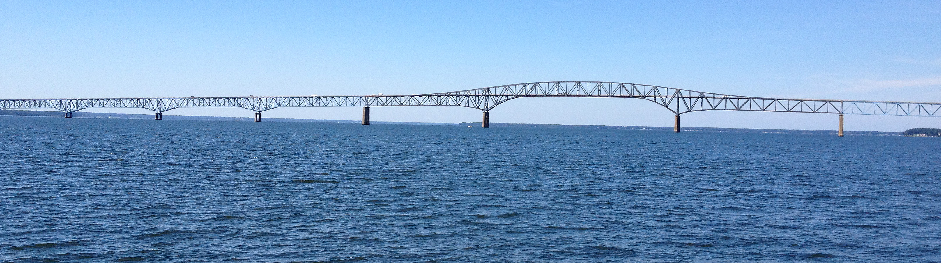 Rappahannock River, Virginia - Robert O Norris bridge at Whitestone